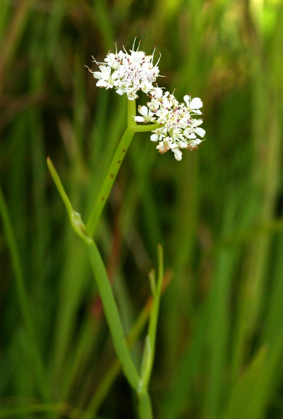 Inflorescences of Oenanthe fistulosa (Apiaceae).